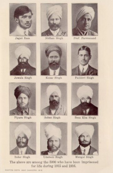 A page from the Hindustan Gadar, published in 1916. It shows photographs of 12 Indian revolutionaries who were imprisoned for life by the British Empire during 1915-1916.